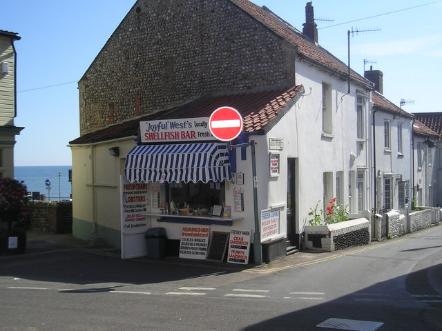 "Joyful" West's shellfish bar Sheringham This stall sells locally caught shellfish. It's on the corner of Gun St and High St not far from the sea front. "Joyful" West was a local fisherman and lifeboatman.